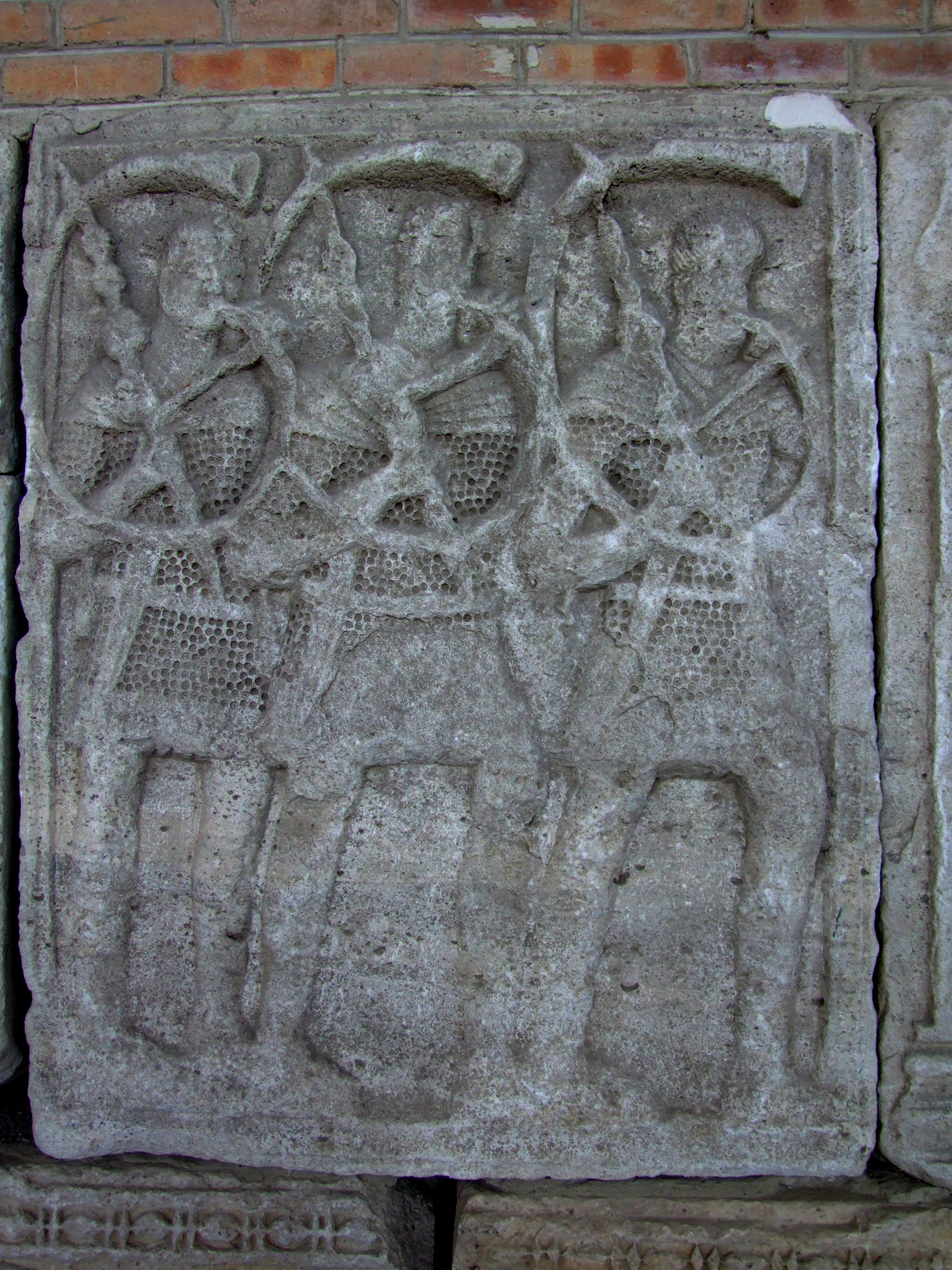 Tropeum Traiani Metope XLII